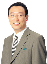 Hiroyuki Nagahama was inaugurated as Senior Vice Minister of Health, Labour and Welfare on September, 2009. (For terms of use, see リンク、著作権等について | 首相官邸ホームページ.)